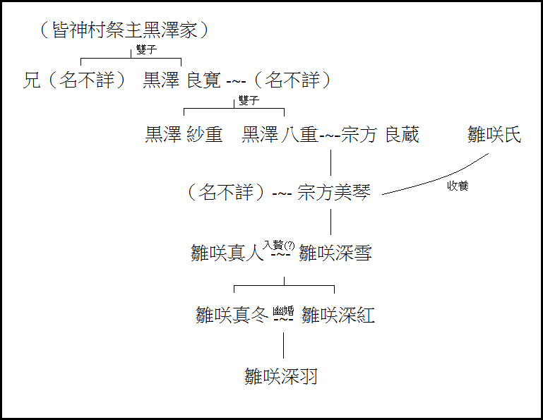 The family tree graphic for Hinasaki Family in Game series Fatal Frame.